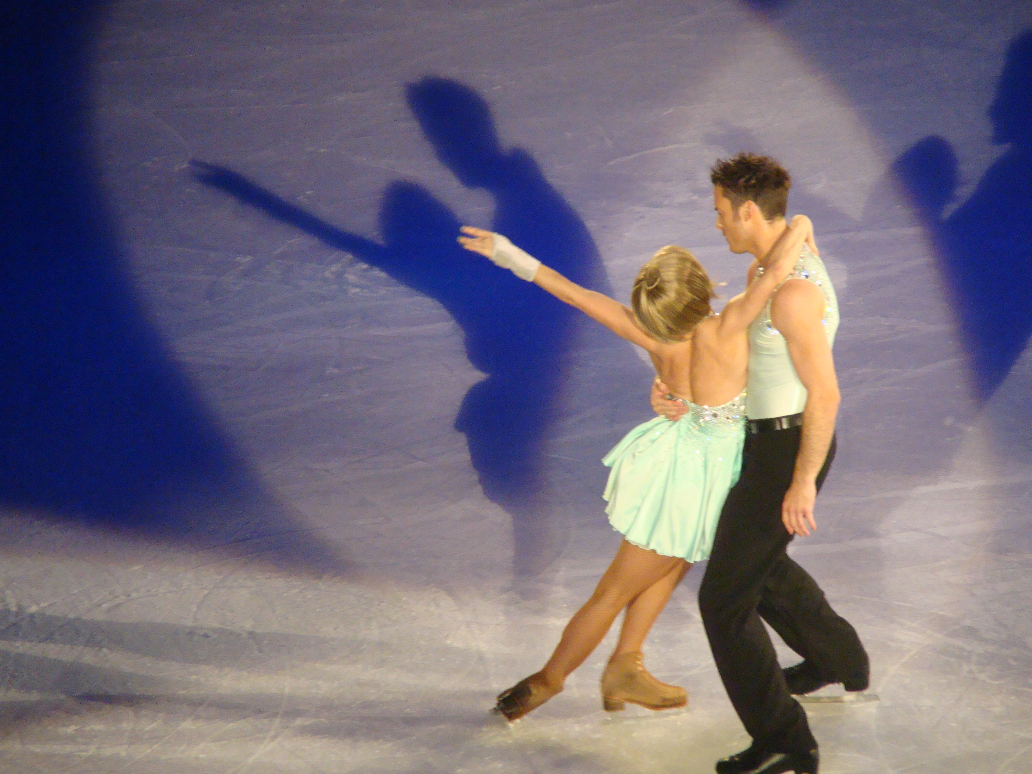 Gary Lucy & Maria Filippov